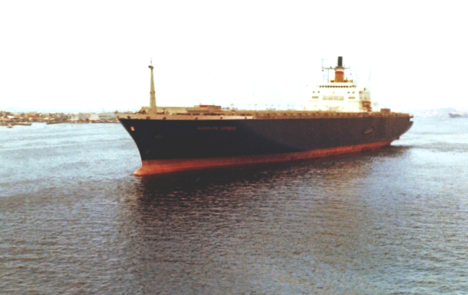 Turbine ship Hamburg Express of the Hapag-Lloyd, Kobe / Japan - 1978